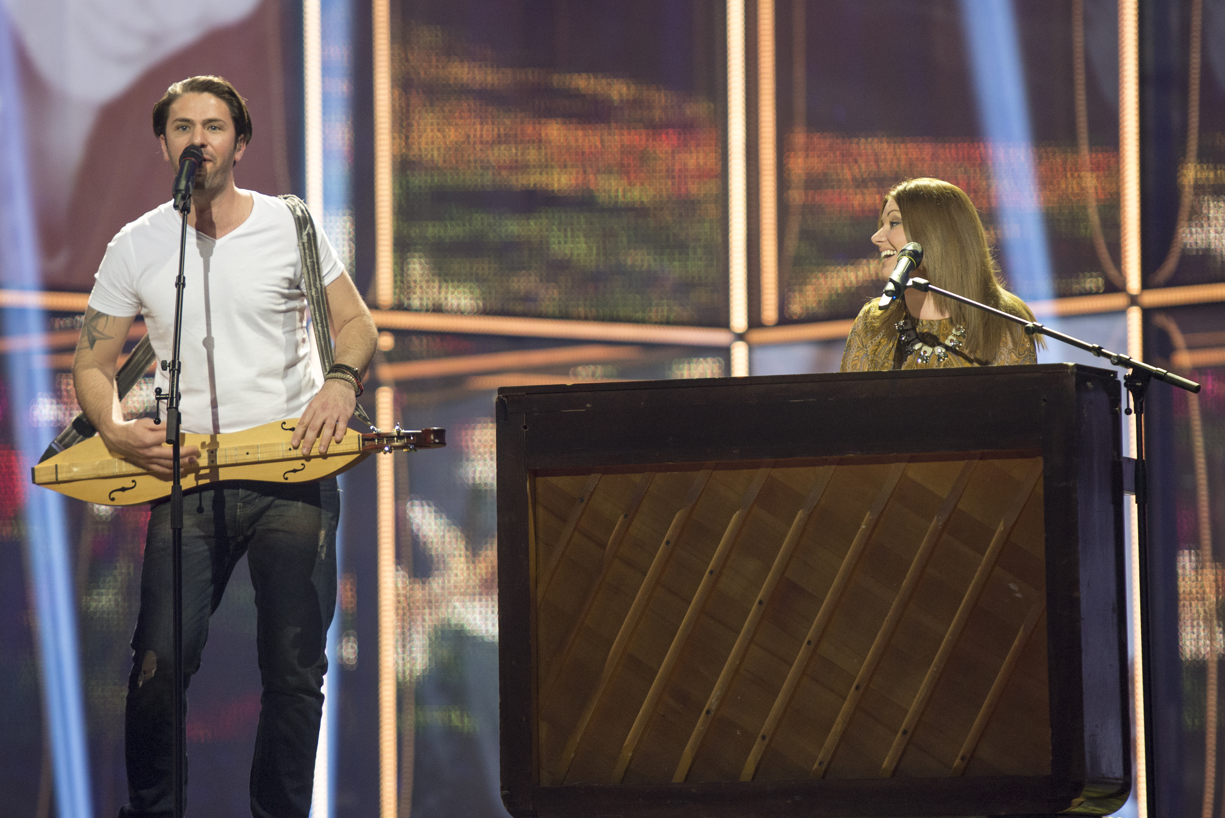 Firelight representing Malta with the song "Coming Home" during the first dress rehearsal of the second semi final of the Eurovision Song Contest 2014 Copenhagen. (Help translate this text)